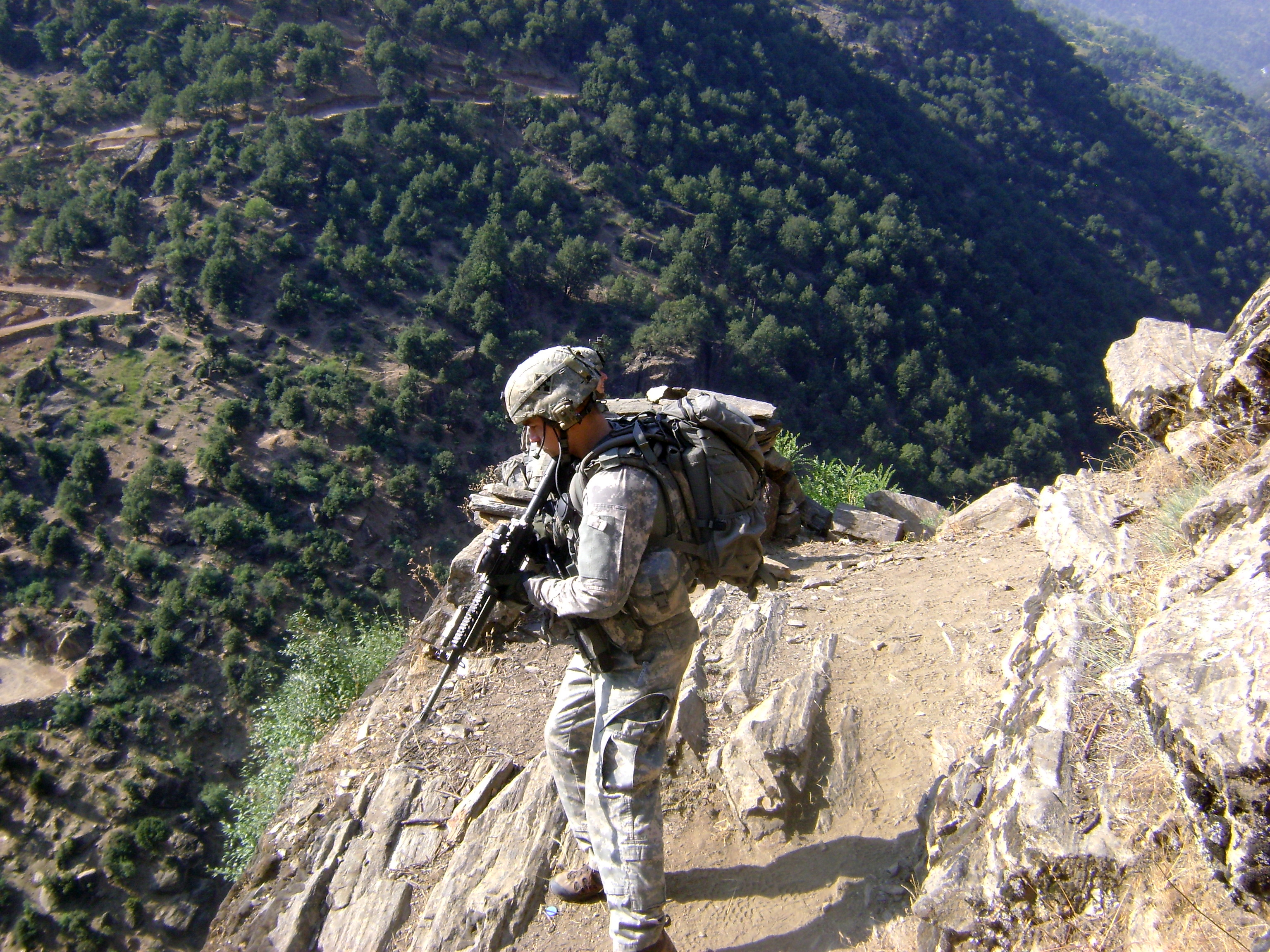 In this file photo dated July 27, 2009, U.S. Army Staff Sgt. Clinton L. Romesha patrols near Combat Outpost (COP) Keating in Kamdesh, Nuristan province, Afghanistan. Former Staff Sgt. Romesha was awarded the Medal of Honor Feb. 11, 2013, for actions during the Battle of Kamdesh at COP Keating, Nuristan province, Afghanistan, Oct. 3, 2009. Romesha was a section leader with Bravo Troop, 3rd Squadron, 61st Cavalry Regiment, 4th Brigade Combat Team, 4th Infantry Division at the time of the battle. (DoD photo/Released)